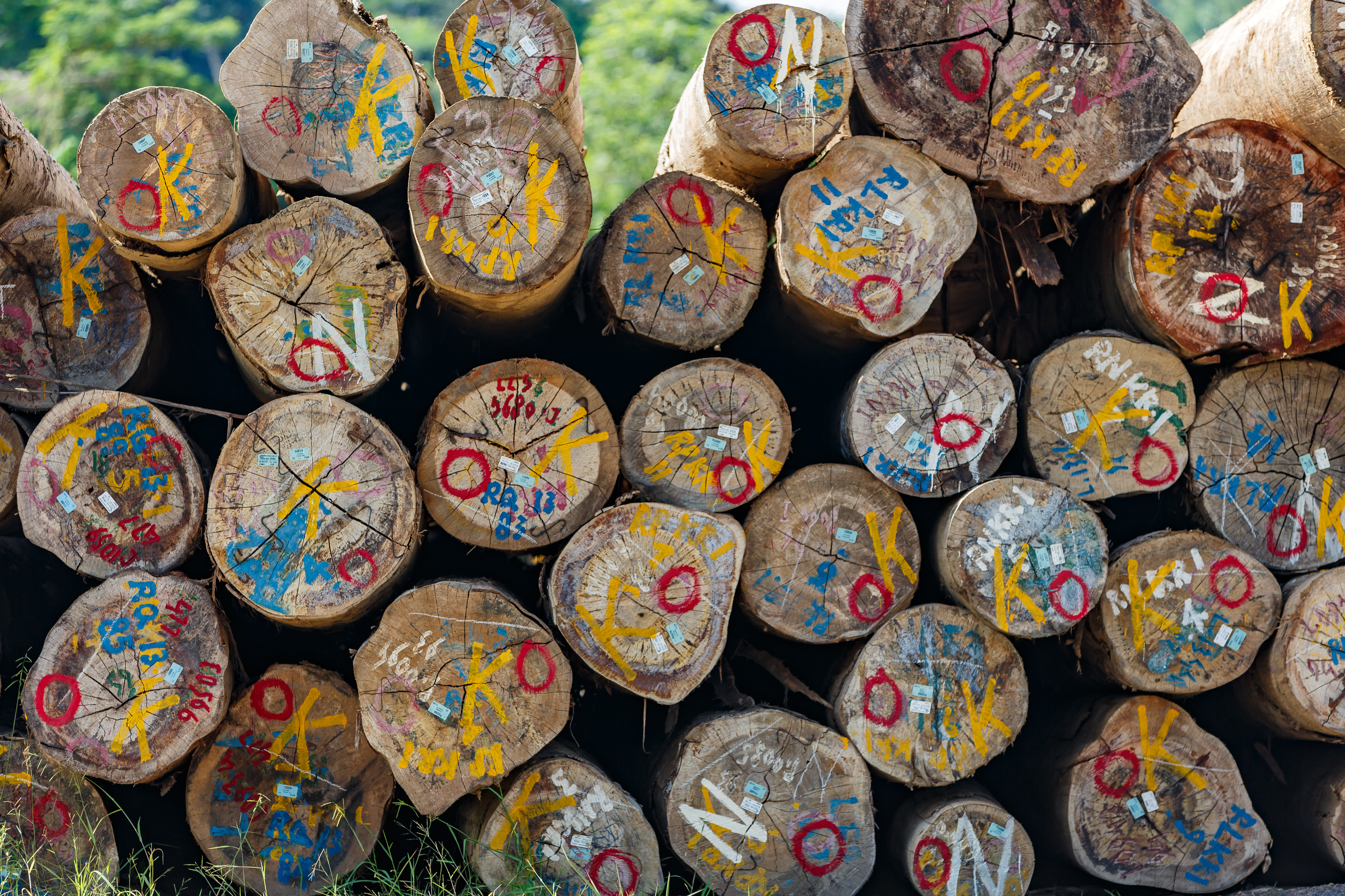 Kalabakan, Sabah: A pile of logs at the Kalabakan Timber Storing and Shipping area